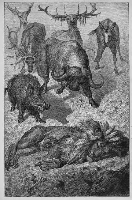 Ernest Griset's illustration of "The Lion Grown Old" from an 1869 edition of Aesop's Fables